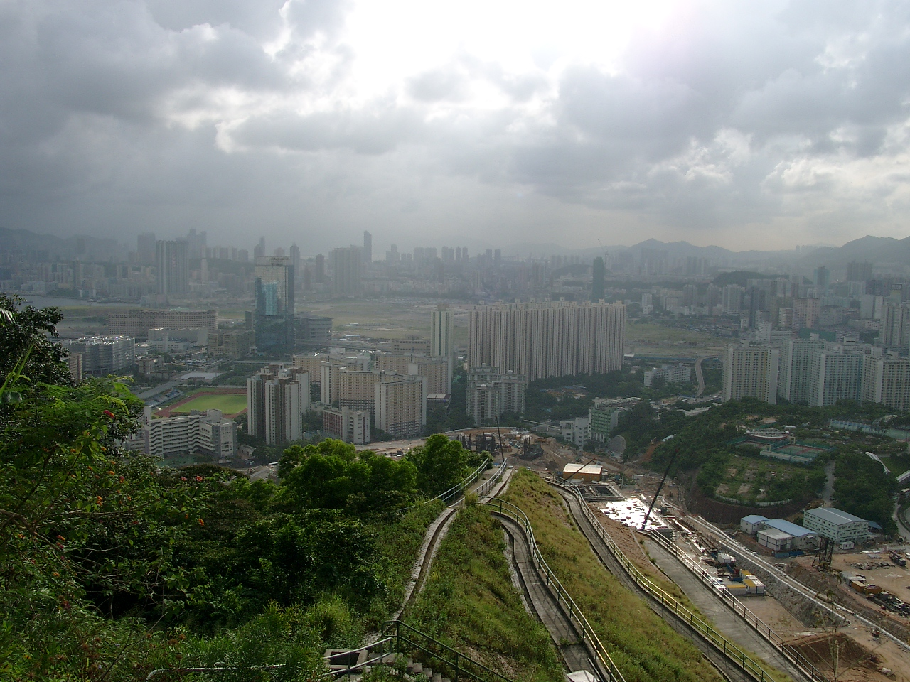 A photo taken from ping Shan in Western Jordan Valley in Hong Kong